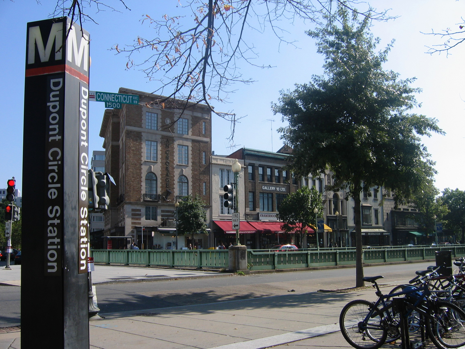 North entrance to the Dupont Cirle metro station, along Connecticut Avenue, across from Kramerbooks. Taken by Kmf164 on October 15, 2005.